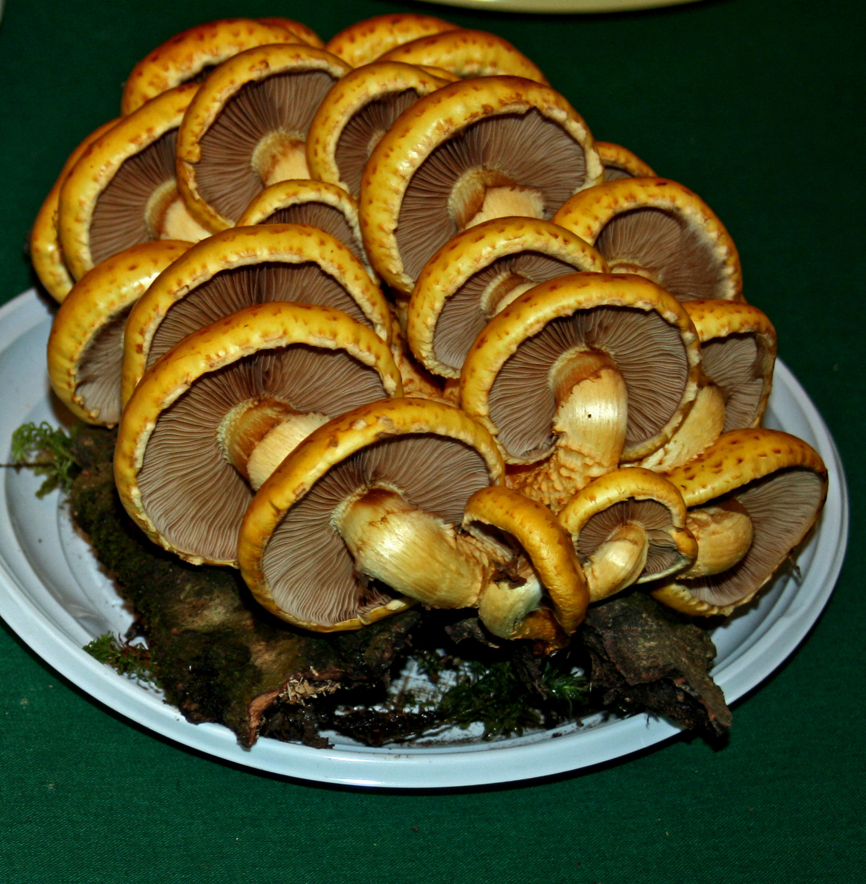 Pholiota aurivella Pholiota aurivella on Prague international mushroom exhibition 2008, Czech Republic